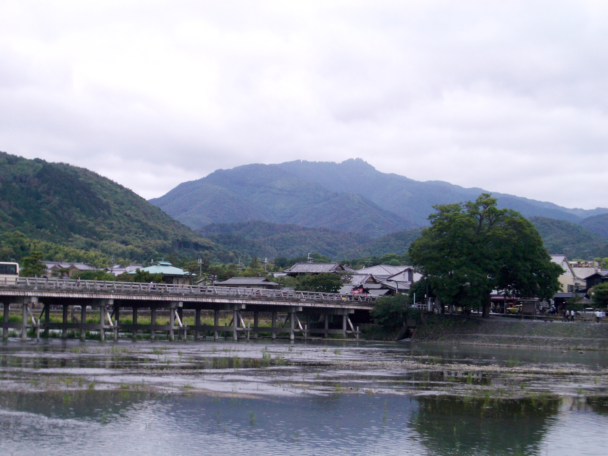 The Southeast side of Mount Atago seen from Arashiyama, Kyoto, Japan.